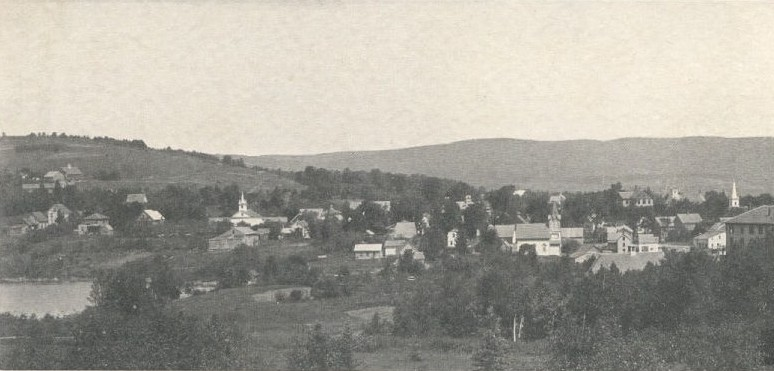 Postcard picture showing a bird's-eye view of Monson, Maine. T